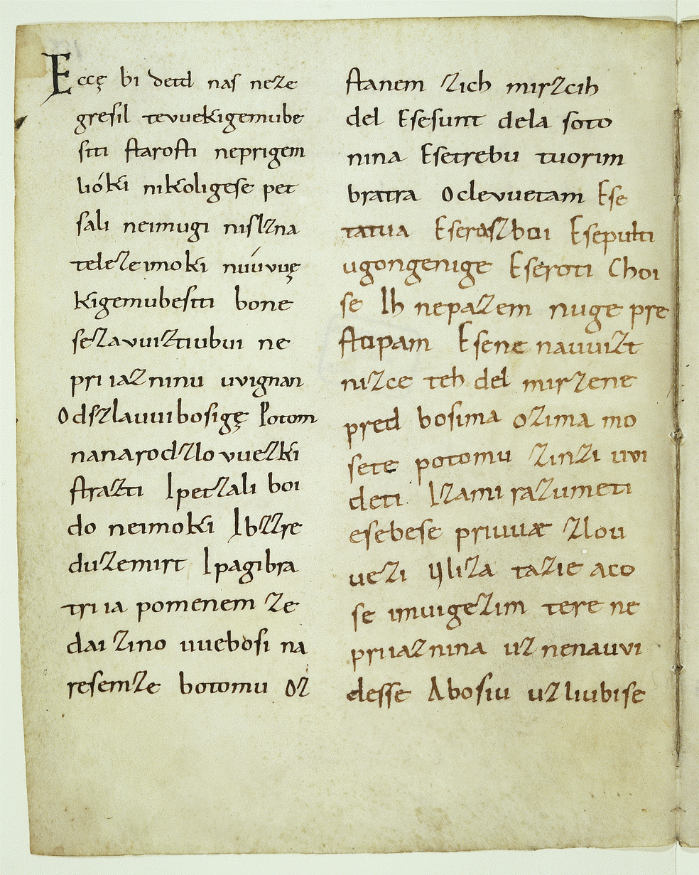 Facsimile of Freising Manuscripts, page 3.